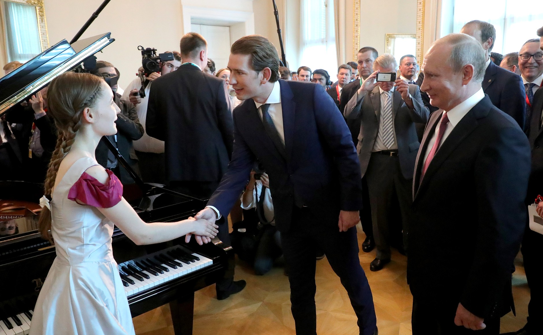 After signing Russian-Austrian documents. With musical prodigy Alma Deutscher, 13, who played a little fantasia in honour of the President of Russia.